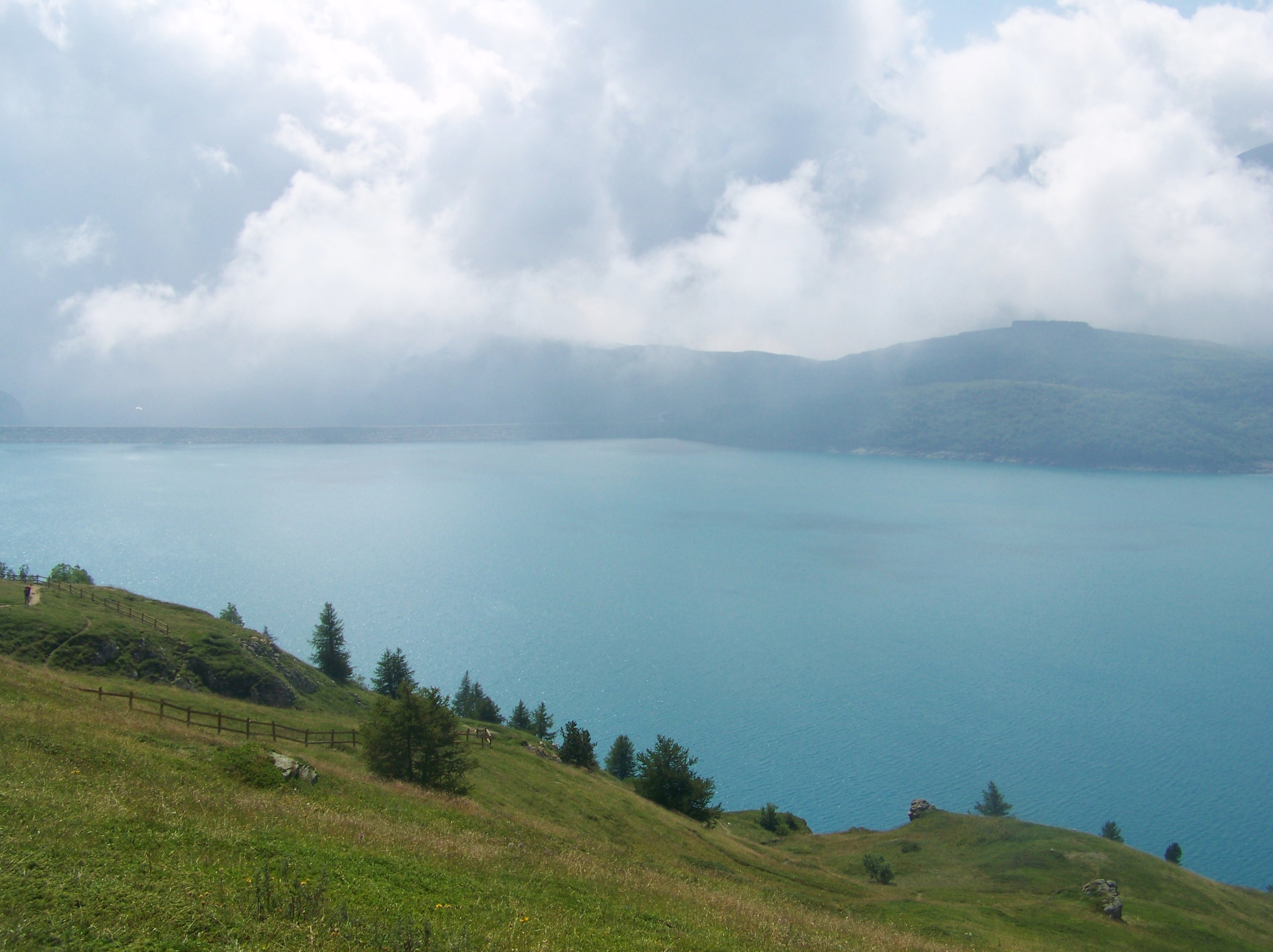 Sight of lac du Mont-Cenis lake in eastern Savoie (France) and close to the Italian border. Here can be seen the "retours d'est" phenomemon in which clouds and rain come from Italy by the east.